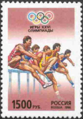 Russia stamp no. 298, commemorating the 1996 Summer Olympics.